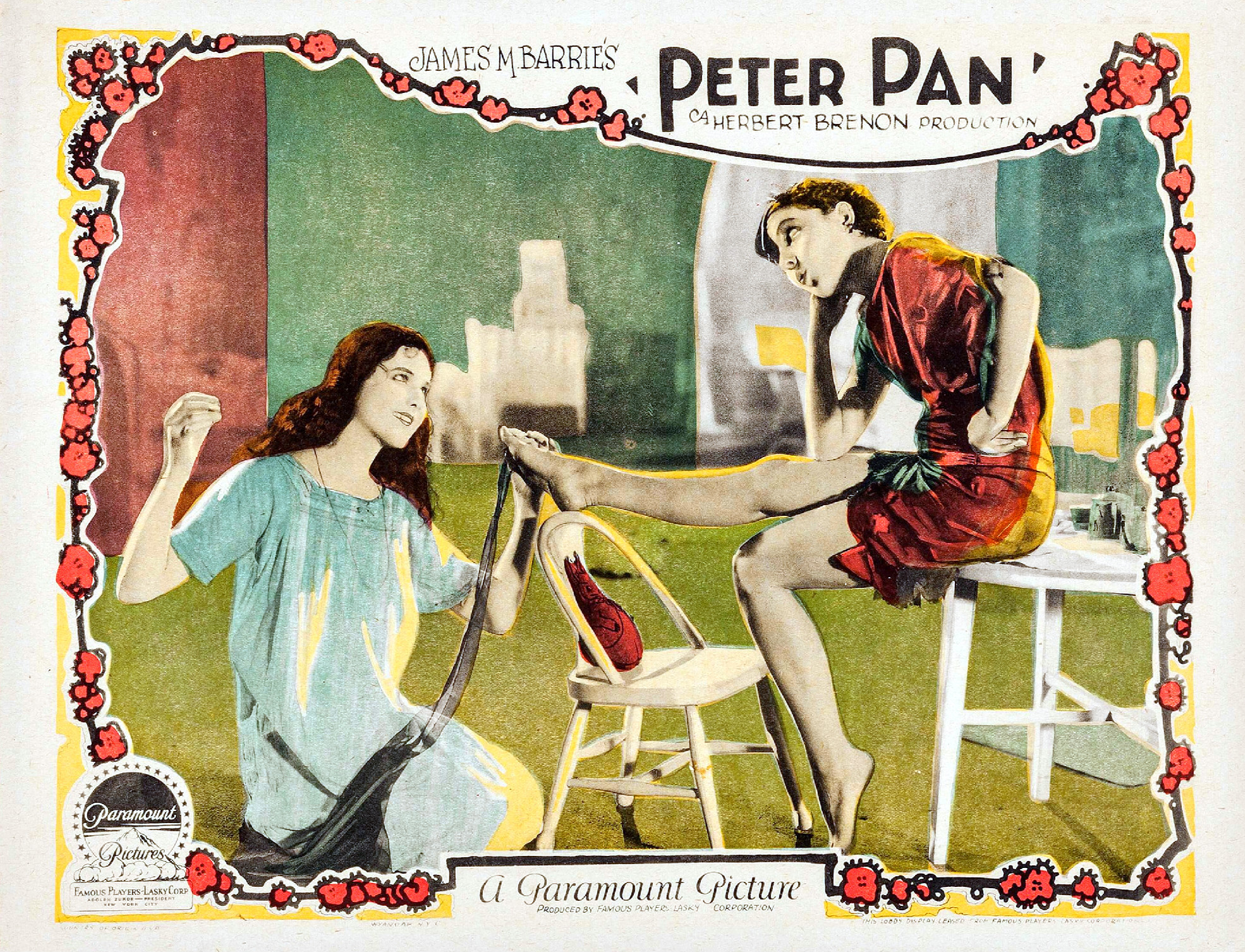 Lobby card for the 1924 film Peter Pan. L-R: Mary Brian and Betty Bronson.